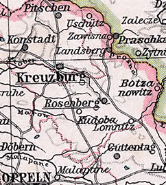 Detail from a map of Silesia.